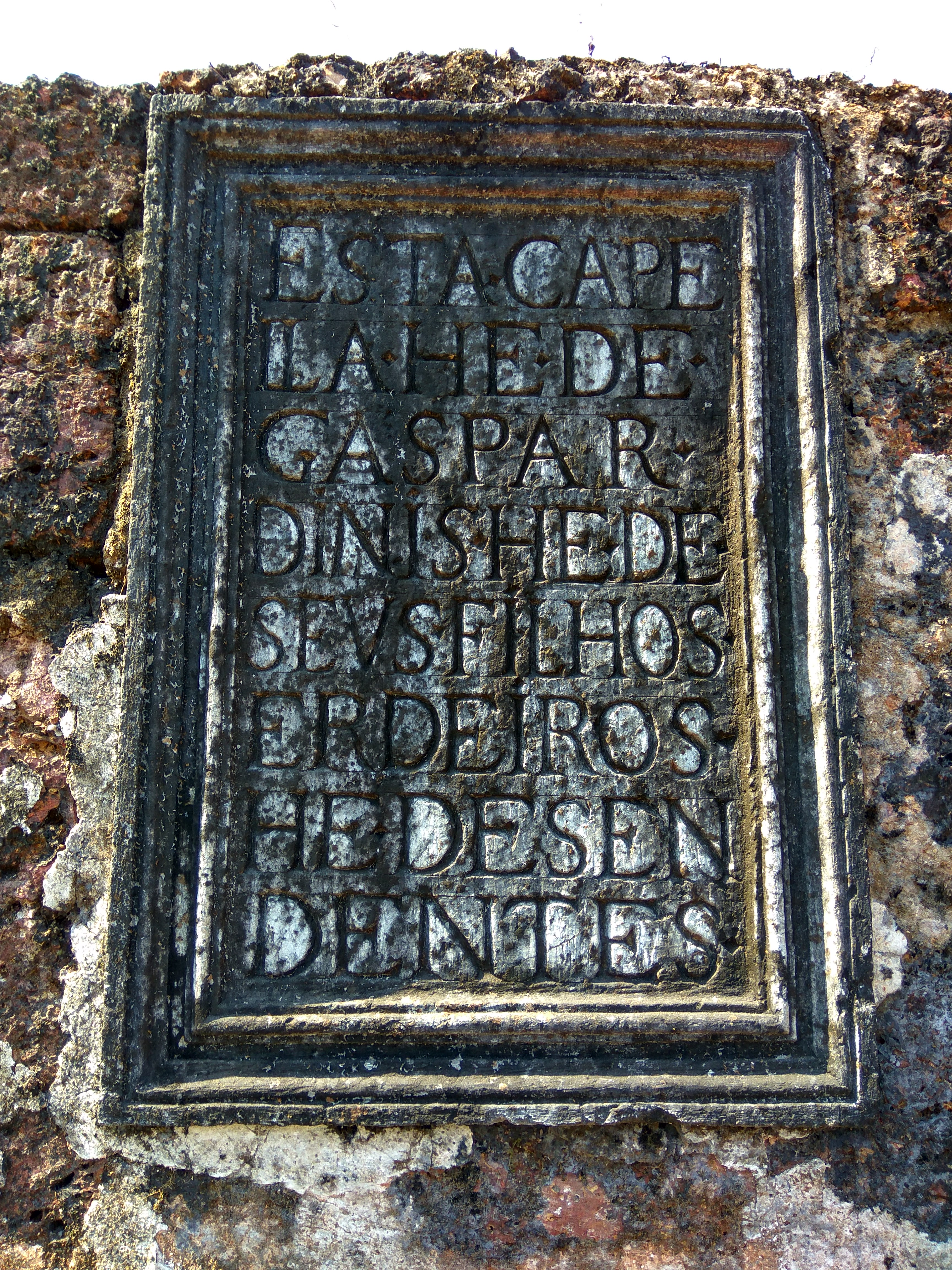 Inscription at the St. Augustine Church in Goa